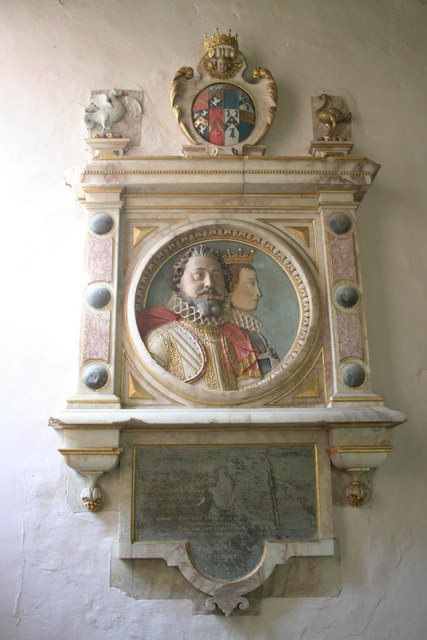 Monument in St Lawrence's Church, Snarford, Lincolnshire to Frances Wray and her second husband Robert Rich, Earl of Warwick (died 1619). Probably by famous sculptor Epiphanius Evesham, it shows the couple in low relief ... as if in a Jacobean miniature painting. Born in 1568 the second daughter of Sir Christopher Wray, Lord Chief Justice to Queen Elizabeth I, Frances Wray was described as 'a person of shining conversation and eminent bounty'. She married Sir George St.Pol at the age of fifteen and after 30 years of marriage found herself as a wealthy widow. Three years later in 1616 she married the even wealthier Robert Lord Rich, when he died in 1619 she was one of the richest women in Lincolnshire. She died at Snarford in 1634 aged 66. Showing quartered arms of Rich (Gules, a chevron between three crosses botonée or) impaling quartered arms of Wray (Azure, on a chief or three martlets gules)